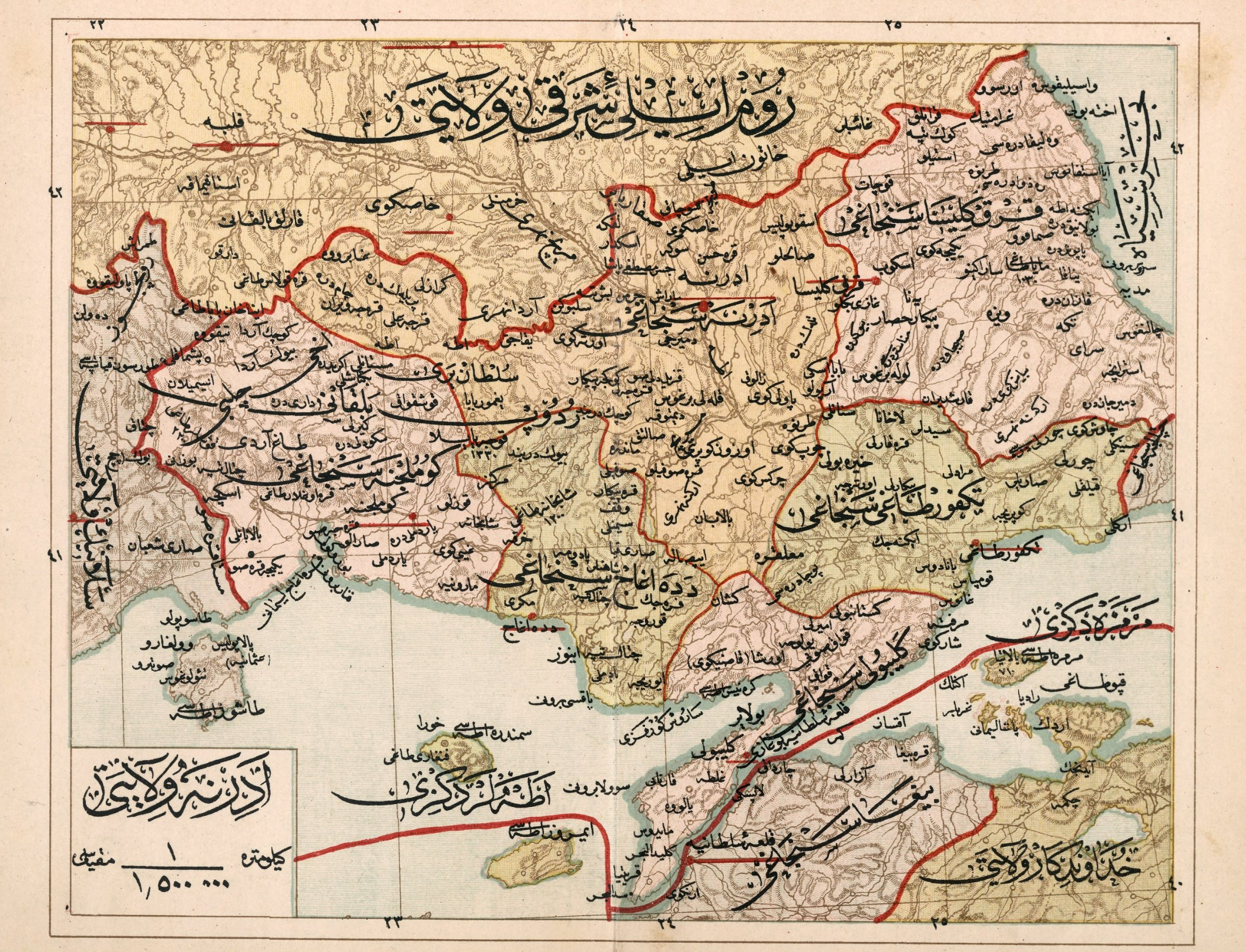 Adrianople Vilayet — Memalik-i Mahruse-i Şahaneye Mahsus Mukemmel ve Mufassal Atlas (1907); it was divided in five sanjaks: Edirne, Kirklaleri, Tekirdag, Callipoli, Alexandroupolis, and Komotini.